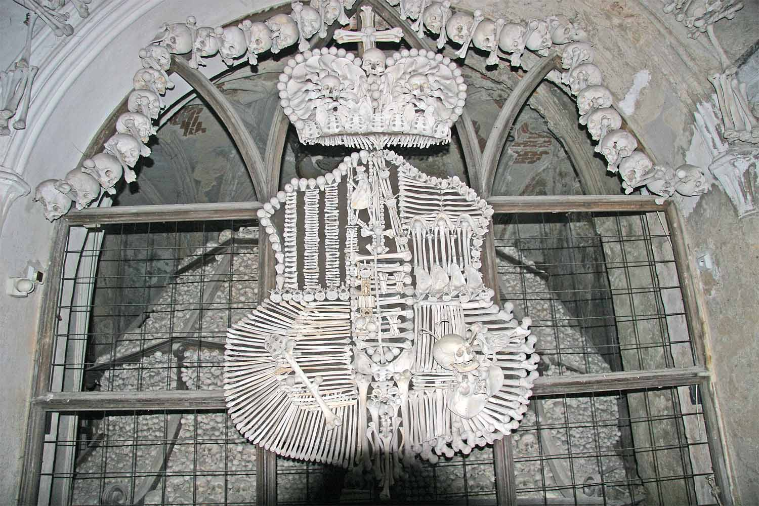 The Schwarzenberg coat-of-arms made of human bones. Interior detail of Sedlec Ossuary in Sedlec (part of Kutná Hora), Czech Republic.